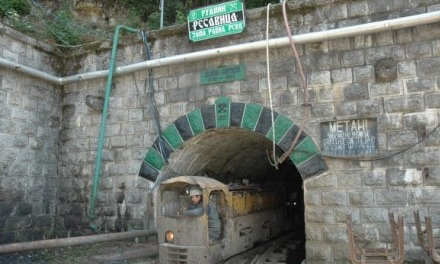 mining in Resavica